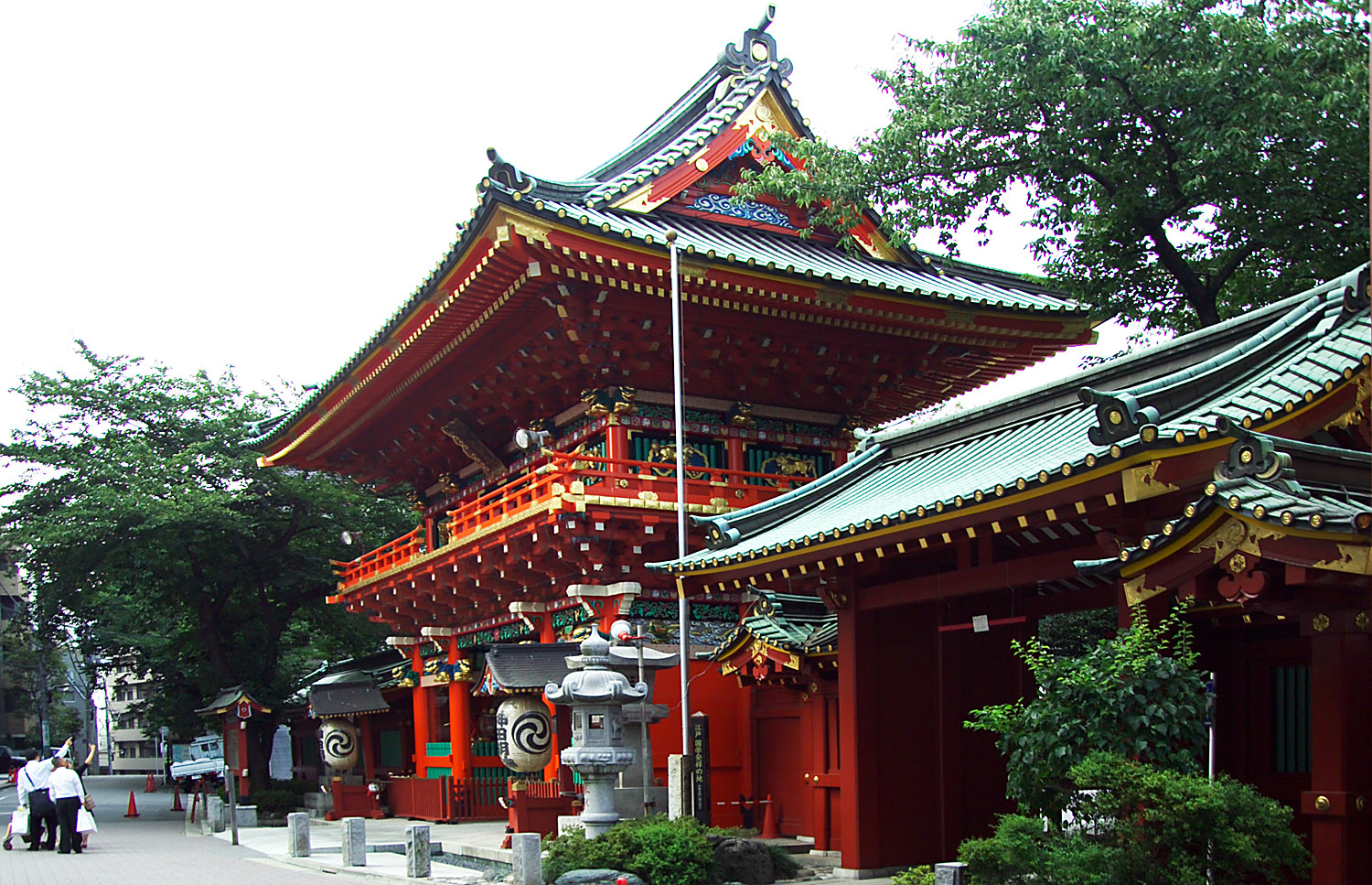 Kanda Myojin, a Shinto shrine (jinja) in Tokyo, Japan. I took this photo and contribute my rights in the file to the public domain; people and organizations retain rights to images in it.